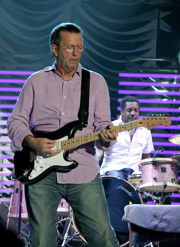 Clapton Rotterdam 2006, Photo